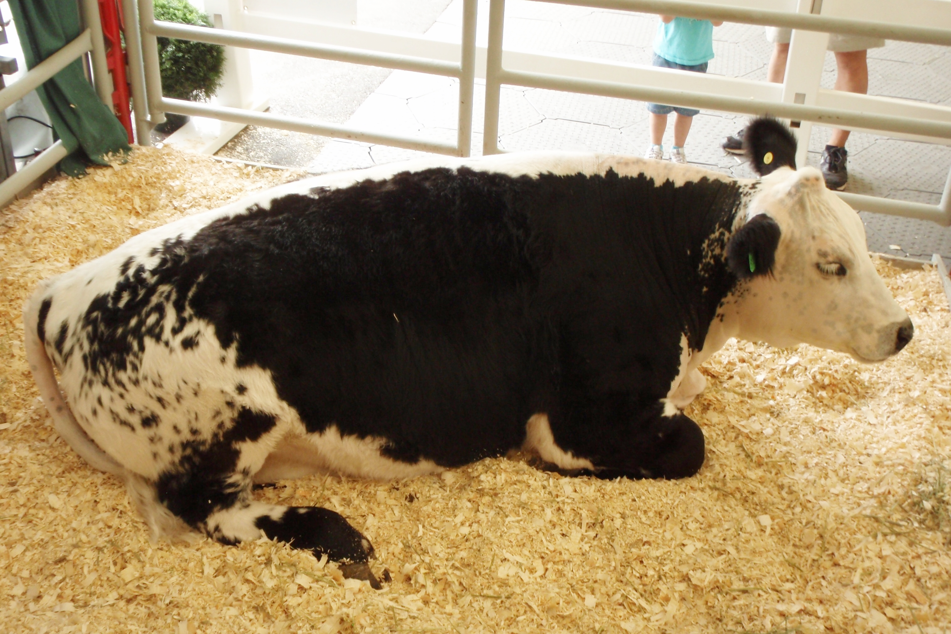 A Canadian Speckle Park on exhibition in Stampede Park, Calgary, Alberta, Canada.